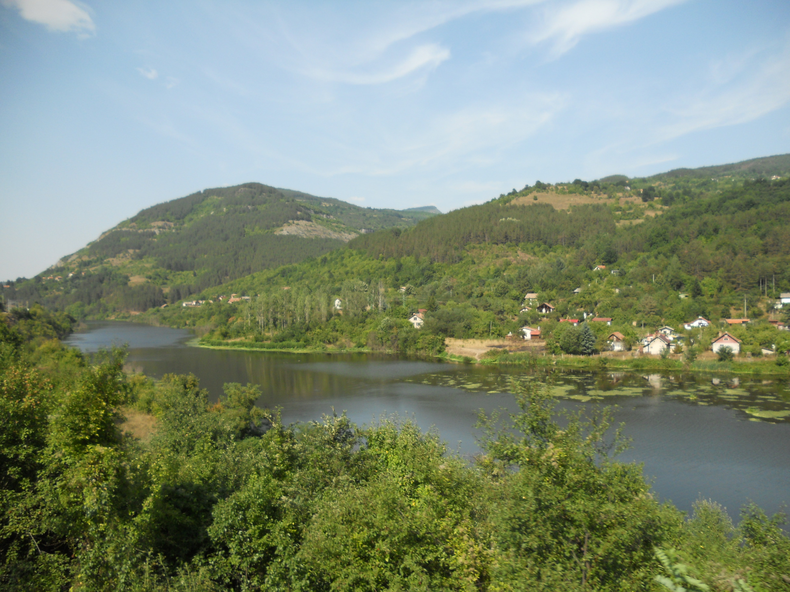 Stara Planina Mountain, Iskar Gorge